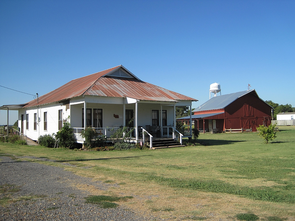 A Painted House is a John Grisham novel. This house in Lepanto, Arkansas and the city of Lepanto itself was the set for the Hallmark Hall of Fame movie.